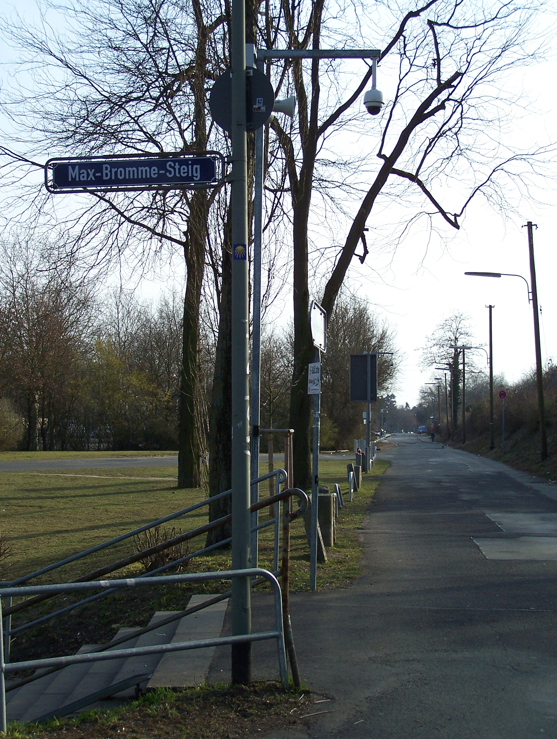 Symbol of Shell of Saint James at the Way of St. James beneath the Bornheimer Hang in Frankfurt am Main-Bornheim, March 2011